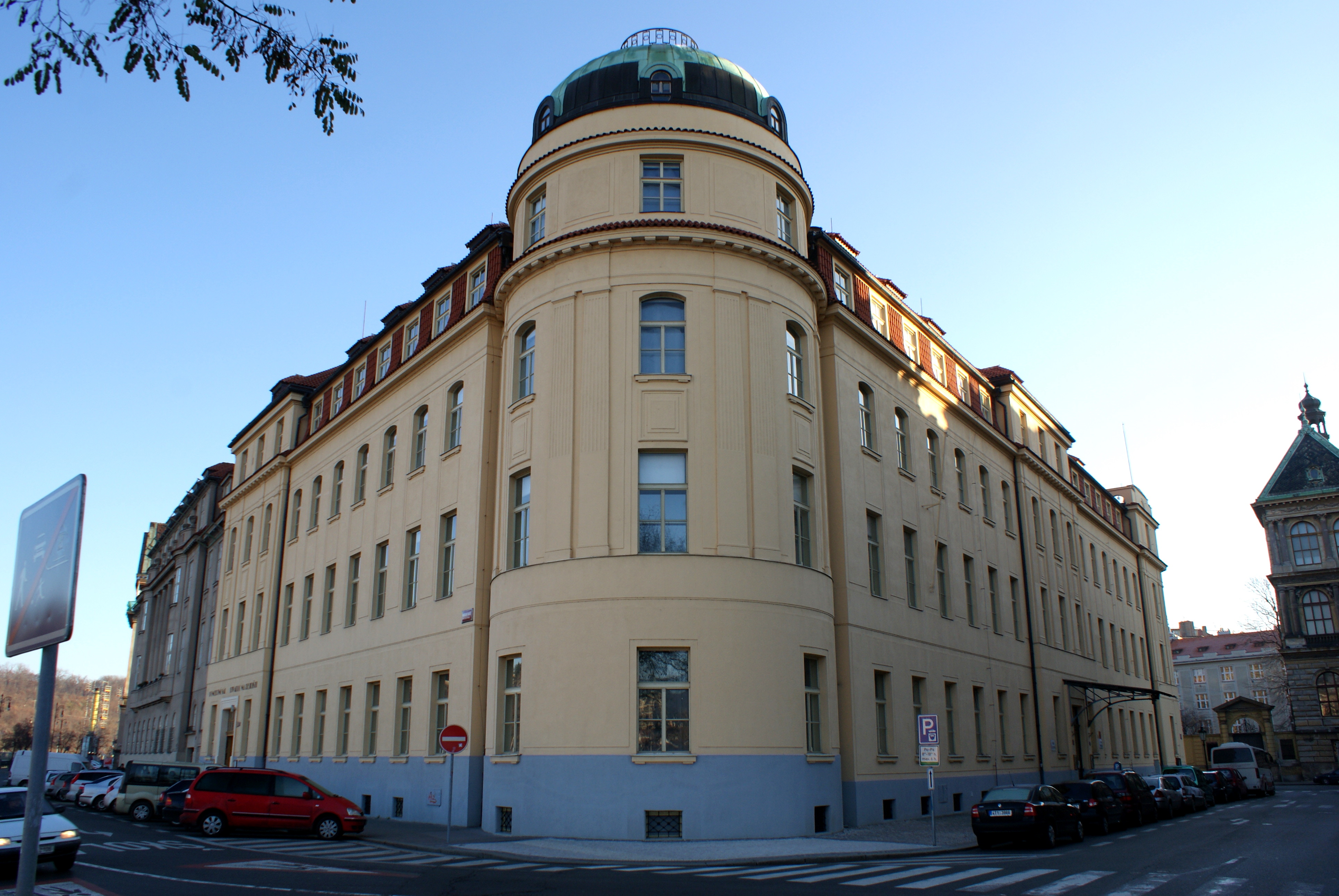 Prague Conservatory, Czech Republic, seen from Vltava river